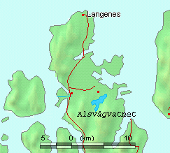 DEMIS World Map Server generated this map from Public Domain sources. DEMIS does not claim any rights over the resultant image ([1]). Alsvågvatnet lake caption was added by User:TheGrappler, the uploader.